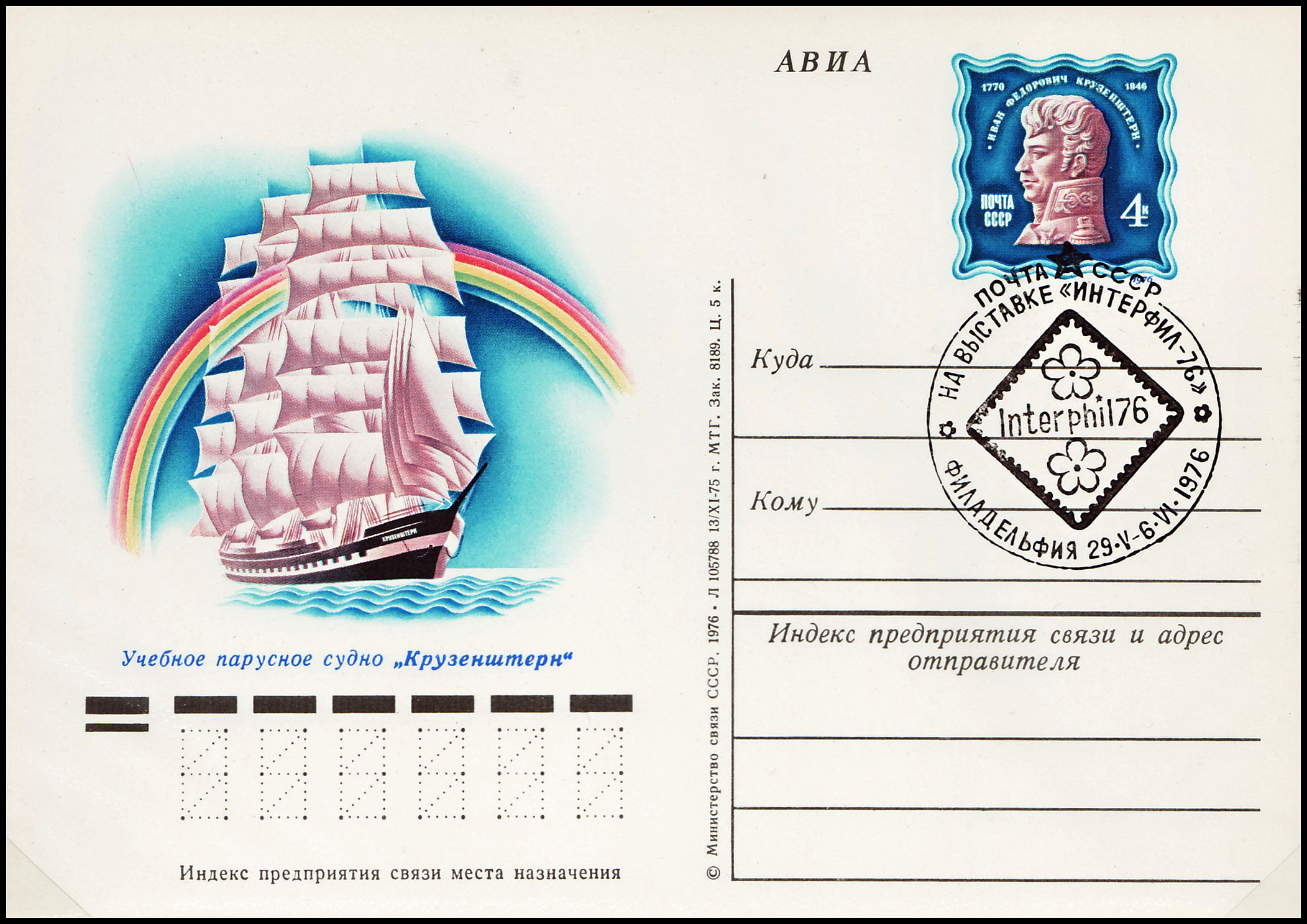 USSR, 1976. Postal card with commemorative stamp. Airmail. "Participation of sailing ships "Kruzenshtern " and "Tovarishch" in the international sailing regatta, dedicated to the 200th anniversary of the United States (Op Sail-76)" (CPA Catalogue №36). Stamp: Portrait of Admiral I. F. Krusenstern. Illustration: A sail training ship "Kruzenshtern"; rainbow. Artist I. Litvinov. Special cancellations: "Post of the USSR at the exhibition Interphil-76" 29.5-6.6.1976 Philadelphia. Special postmark was used during the exhibition in Philadelphia, USA, for souvenir cancellations. Philatelic Exhibition Interphil-76 was dedicated to the 200th anniversary of the United States.